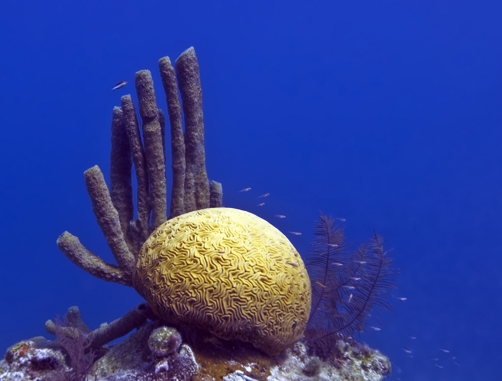 Corals in the Great Blue Hole, Belize.